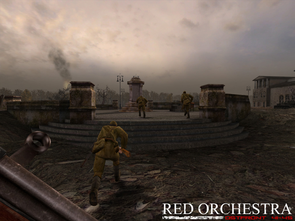 Red Orchestra action shot